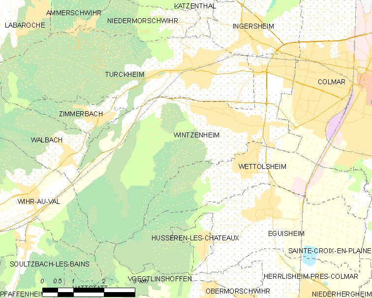 Map of French municipality